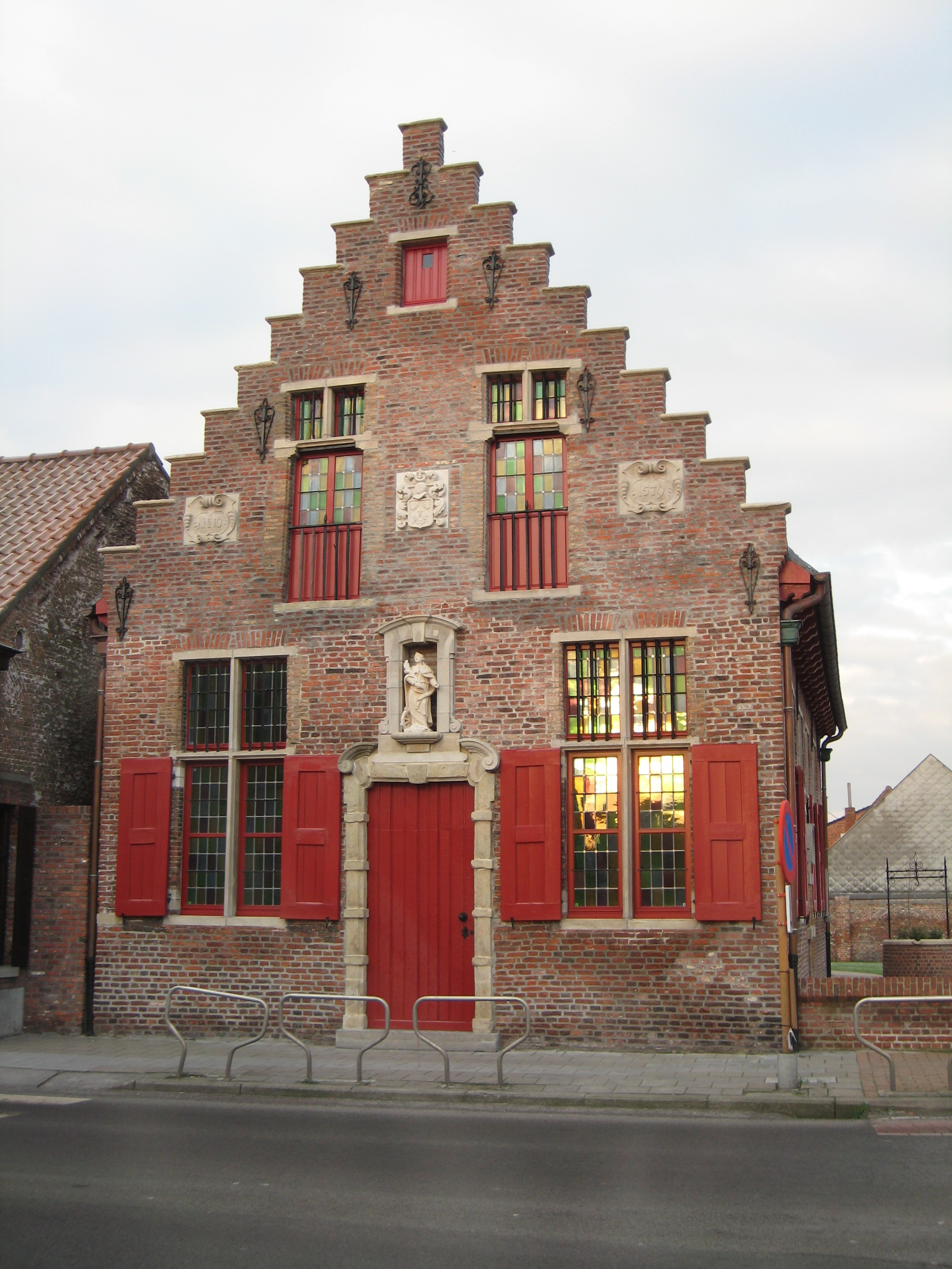 Vierschaar, old courthouse in the Belgian town Wachtebeke. East facade. article